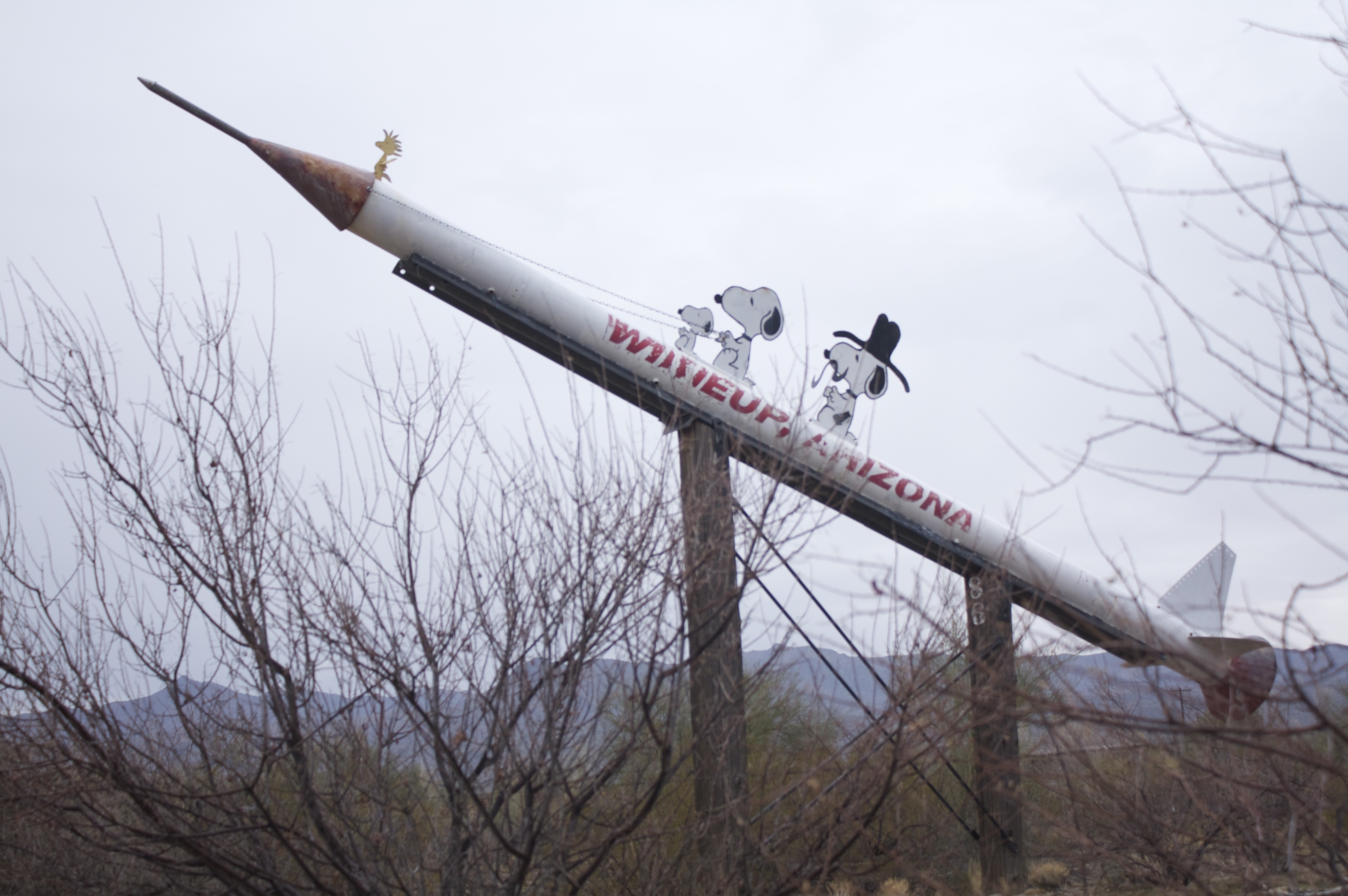 The sign to the entrance of Wikieup Arizona.